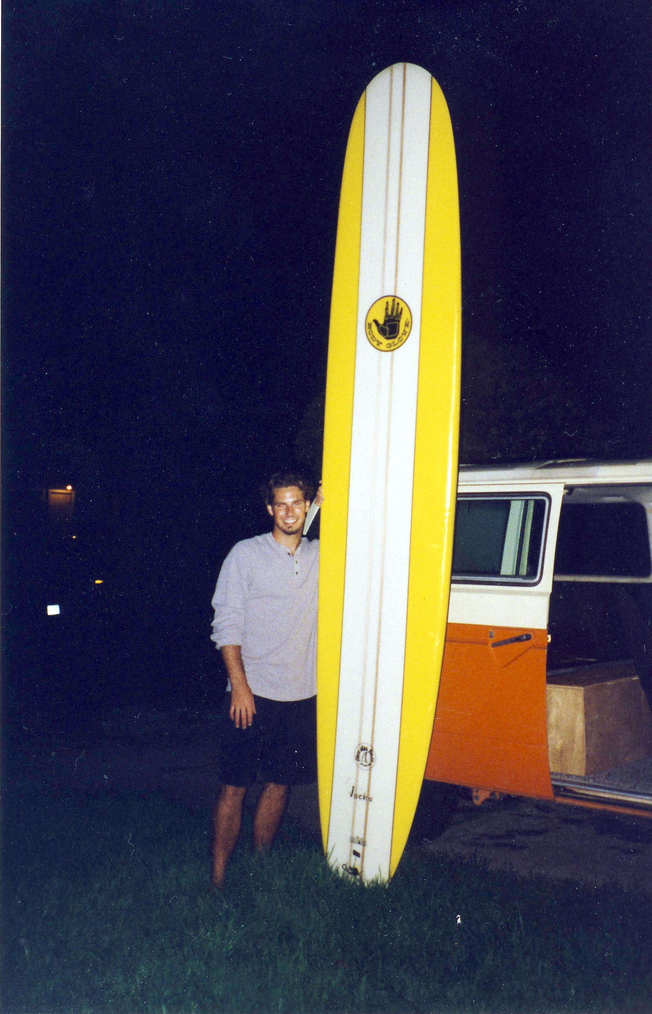 An extreme example of a longboard surfboard. It is 335 cm (11 ft) long and 12 cm (4 1/2 inches) thick.